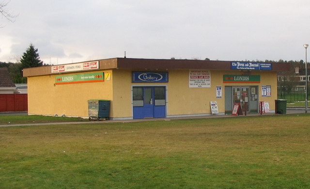 Lochardil Stores. Local convenience store in Lochardil area of Inverness on the right of the building. There is a ladies hairdresser (blue frontage) on the left. Lies at one end of an open grassed area.